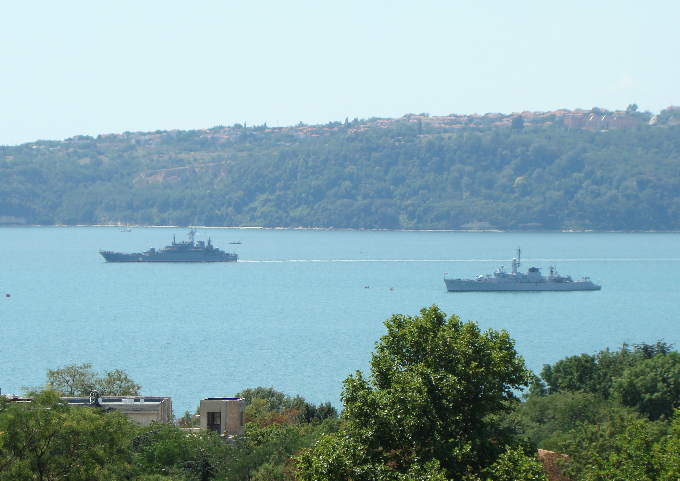 Bulgarian frigate Verni (on the right) and Russian large landing ship Tsezar' Kunikov in Varna.